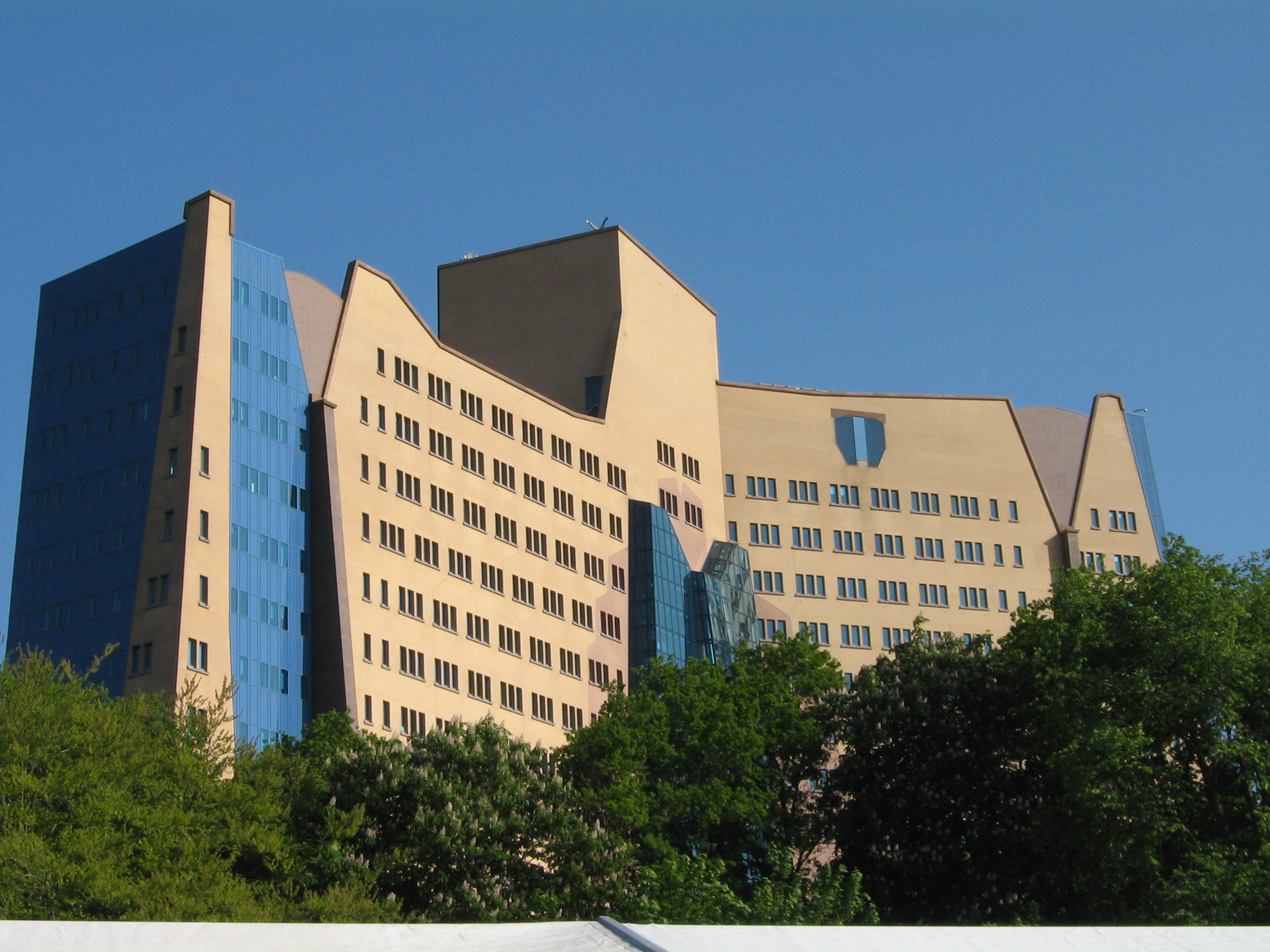 Gasunie headquarters in Groningen, the Netherlands, seen from Stadspark